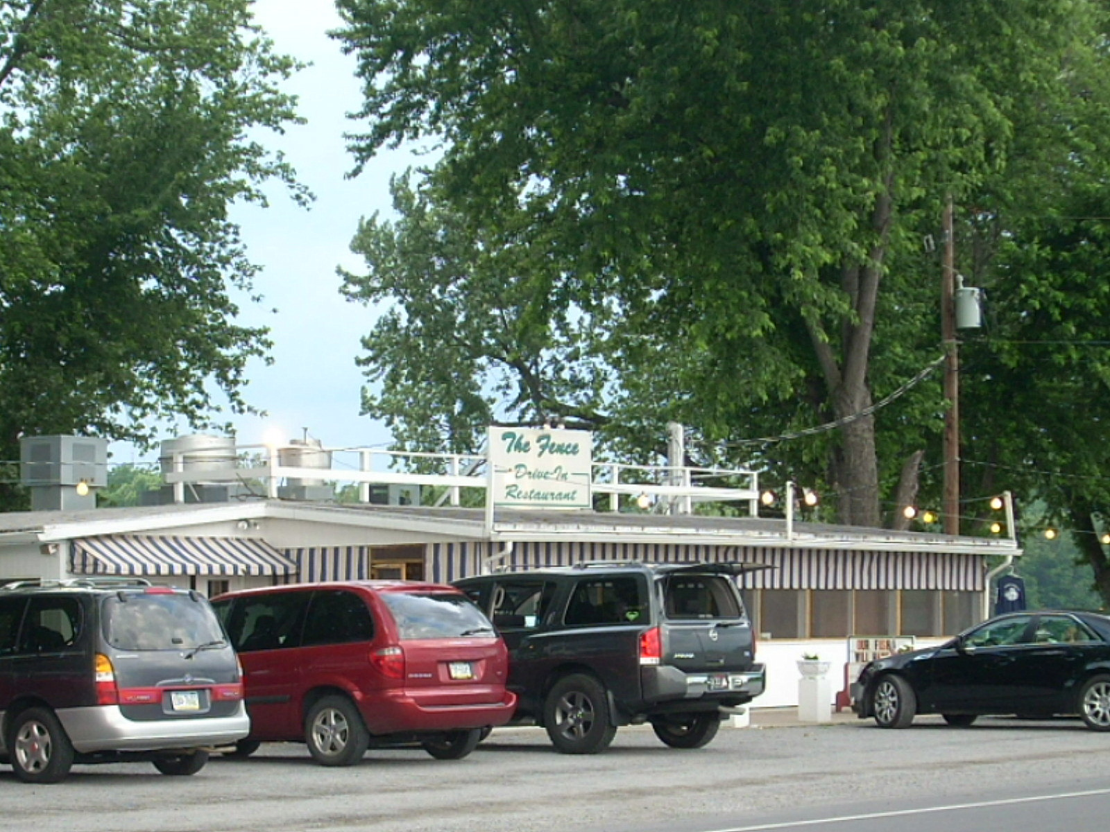 The Fence Drive-In on Pennsylvania Route 405 in West Chillisquaque Township, Northumberland County, Pennsylvania